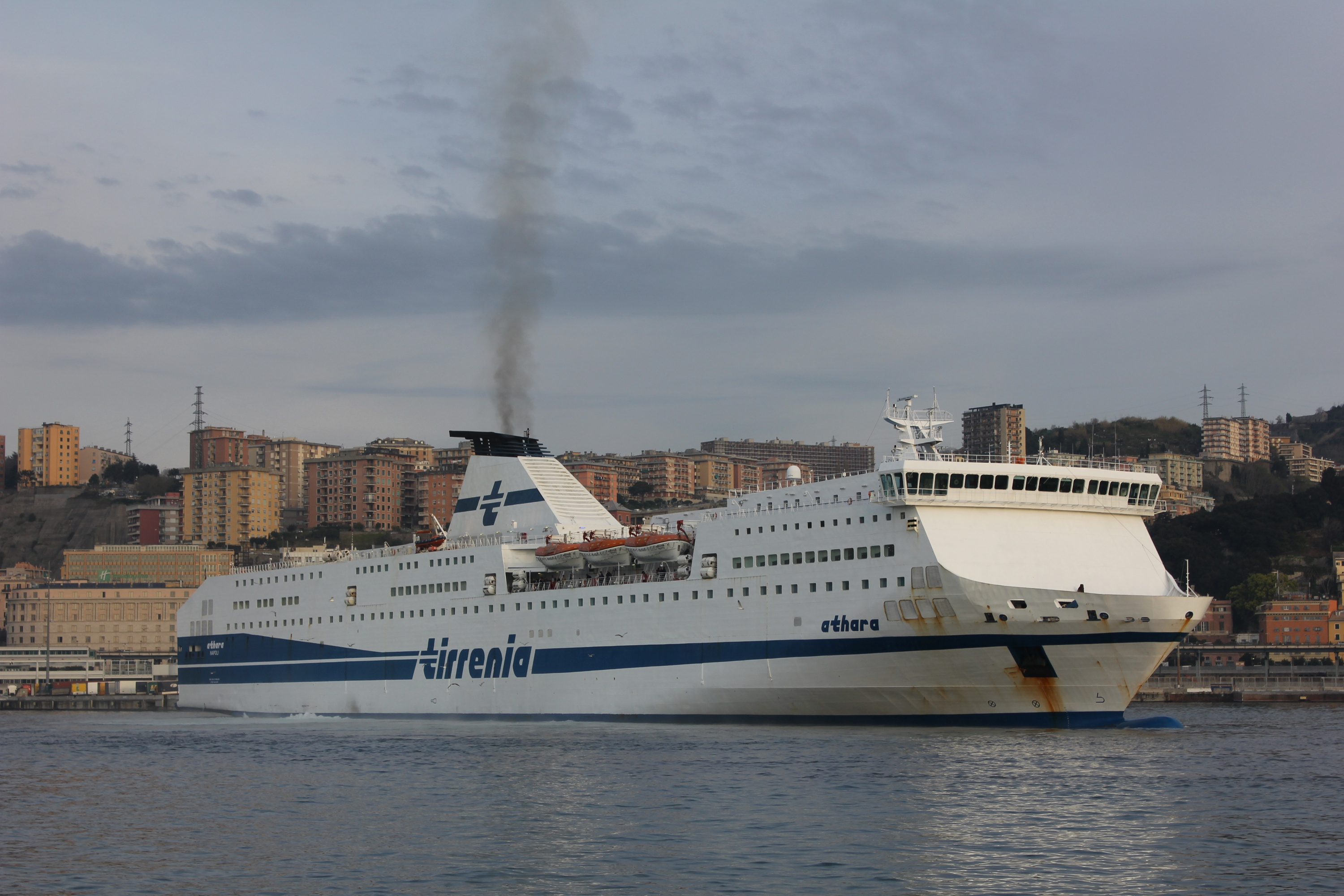 Ferry "Athara" arriving in Genua's harbour, 30-03-2011